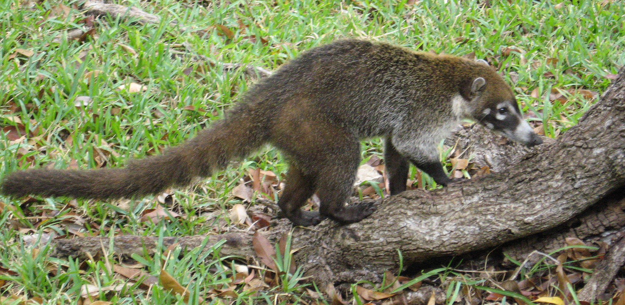 Coati foraging in Mexico